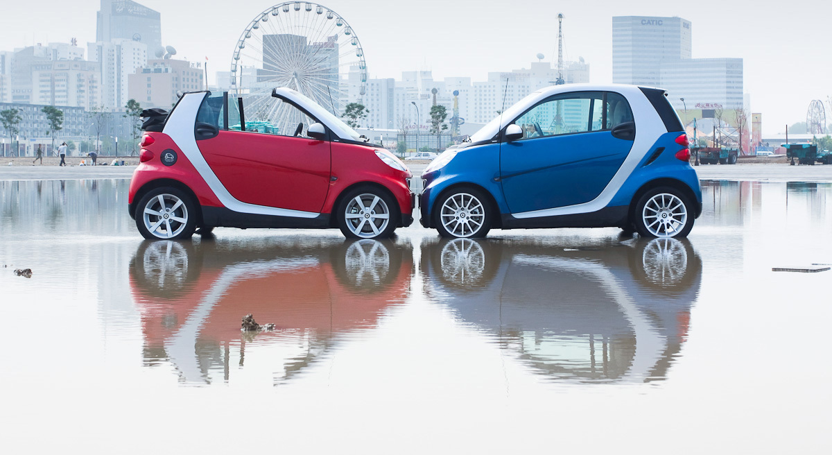 A smart fortwo mhd coupe and cabrio.